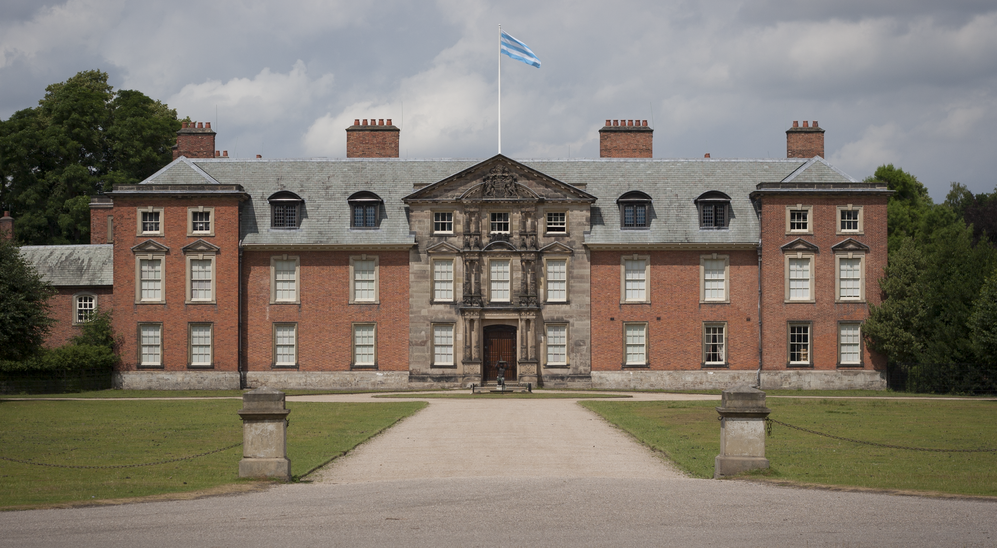 Dunham Massey Hall, shot from afar on a 50mm lens. South east facade.